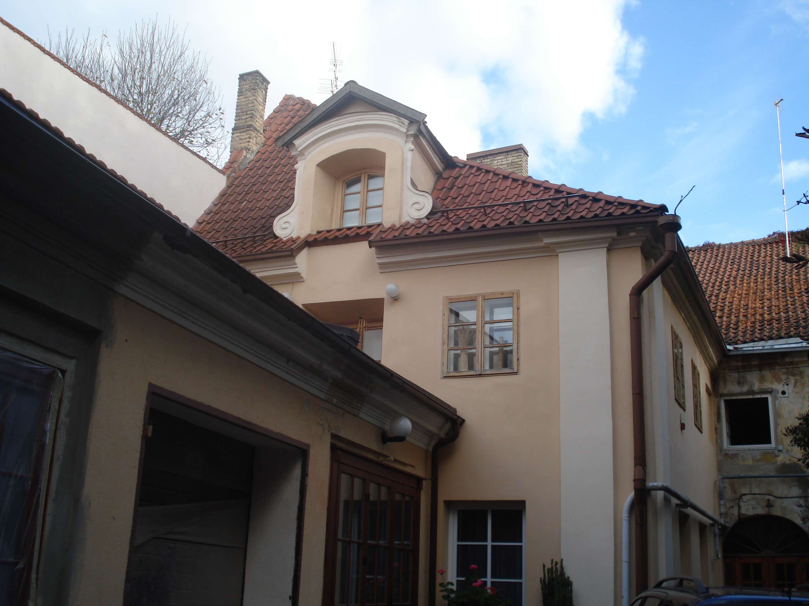 Baroque lucarne in the yard of house in Pilies street in Vilnius (Pilies g. 4). 18 century